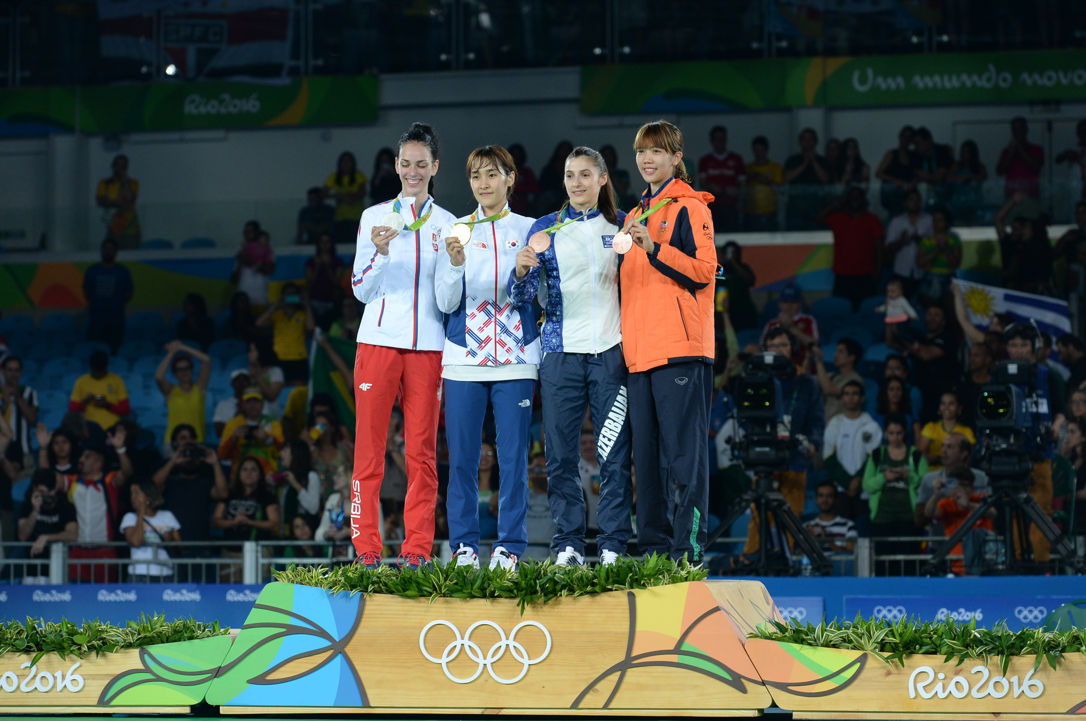 Taekwondo at the 2016 Summer Olympics – Women's 49 kg awarding ceremony